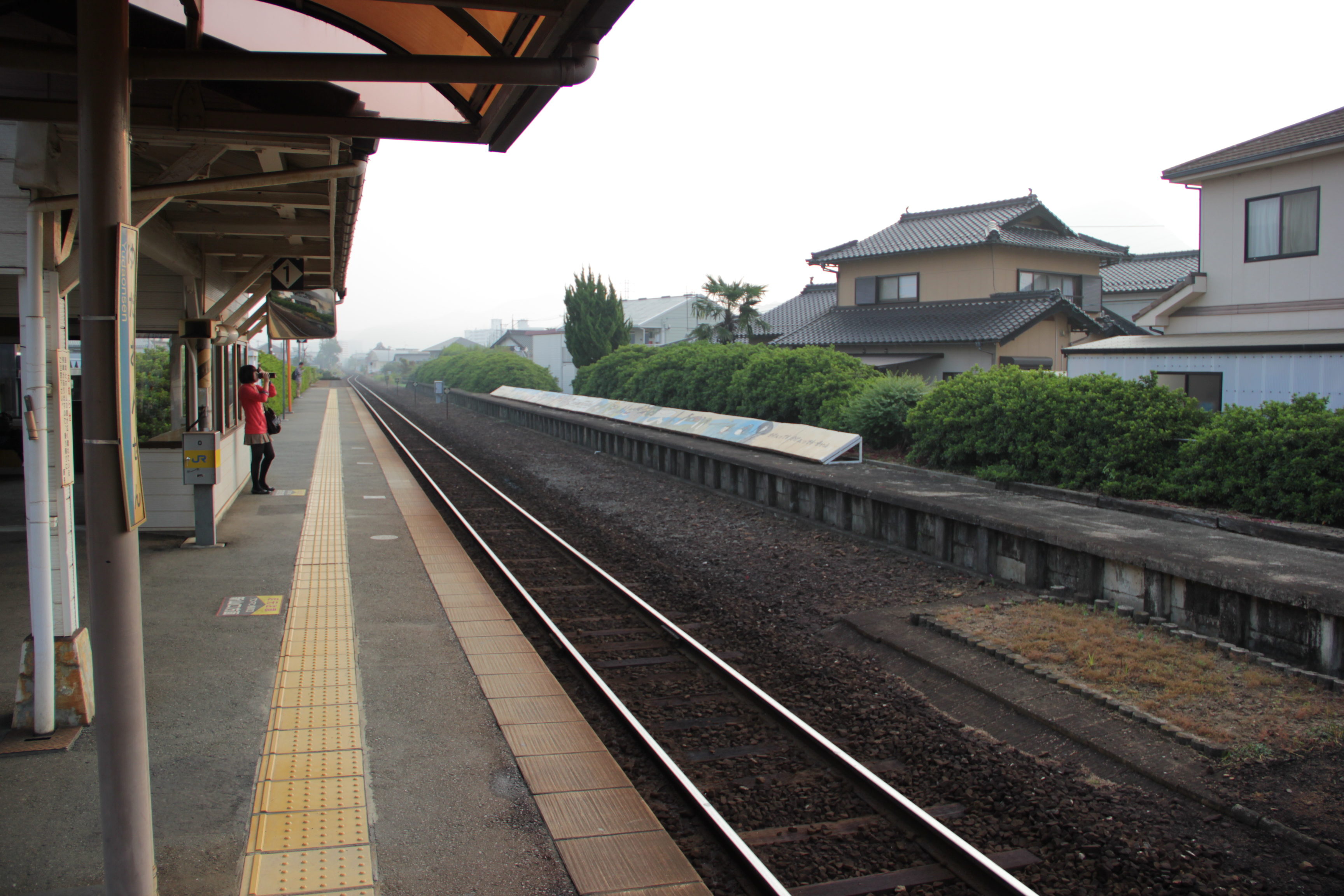 Yudaonsen Station.